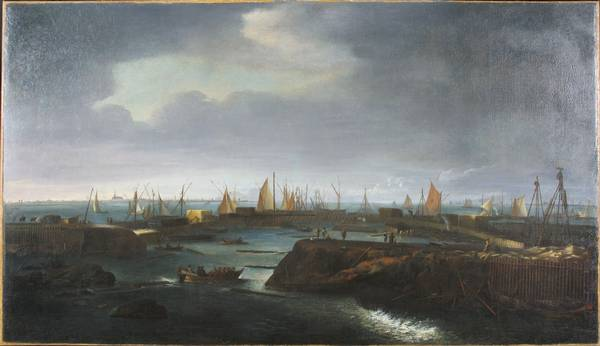 Painting about the levee breach in the Zuiderzeedijk between Hoorn (North Holland, the Netherlands) and Schardam (same). Painting shows the repair works after the All Hallows Flood of 1675.